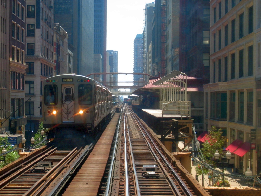 A CTA brown line train leaves Madison/Wabash station in the Chicago loop.